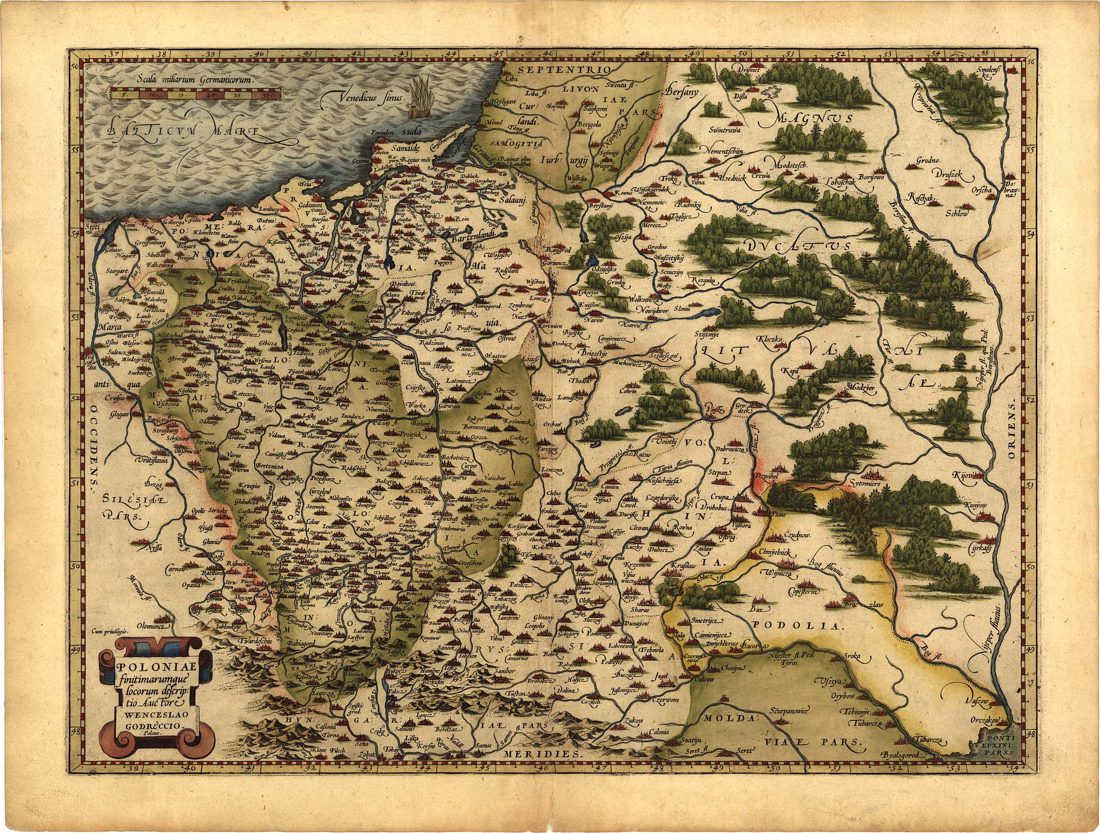 Polish-Lithuanian Commonwealth